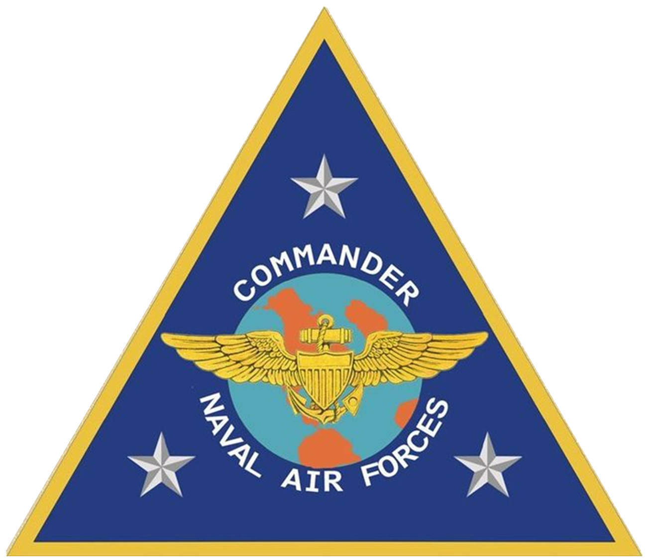 Commander, Naval Air Forces (CNAF) logo.